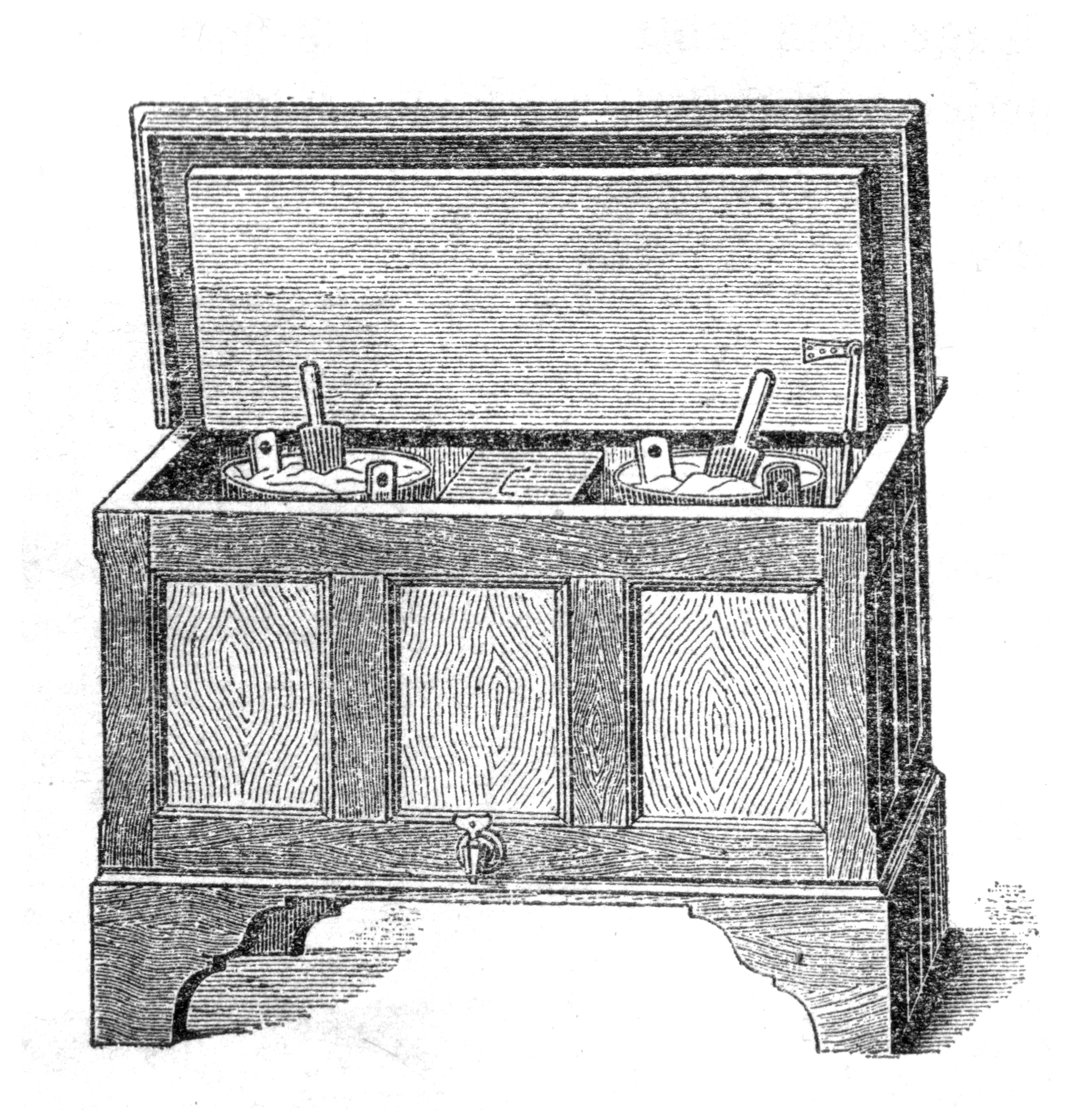 Drawing of the view of a container for cooling food, in particular butter.